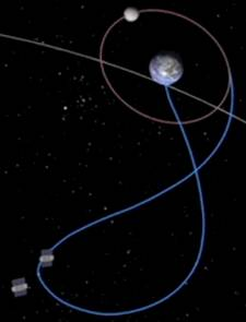 The two GRAIL spacecraft will take a long, counterintuitive but energy-saving route to the Moon by way of a point in space of relative gravitational stability called "Sun-Earth Lagrange point 1" (EL1).